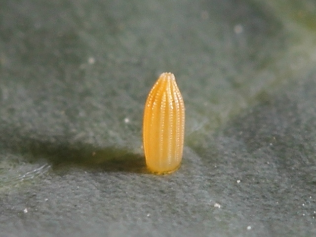 Pieris rapae (Small White), egg